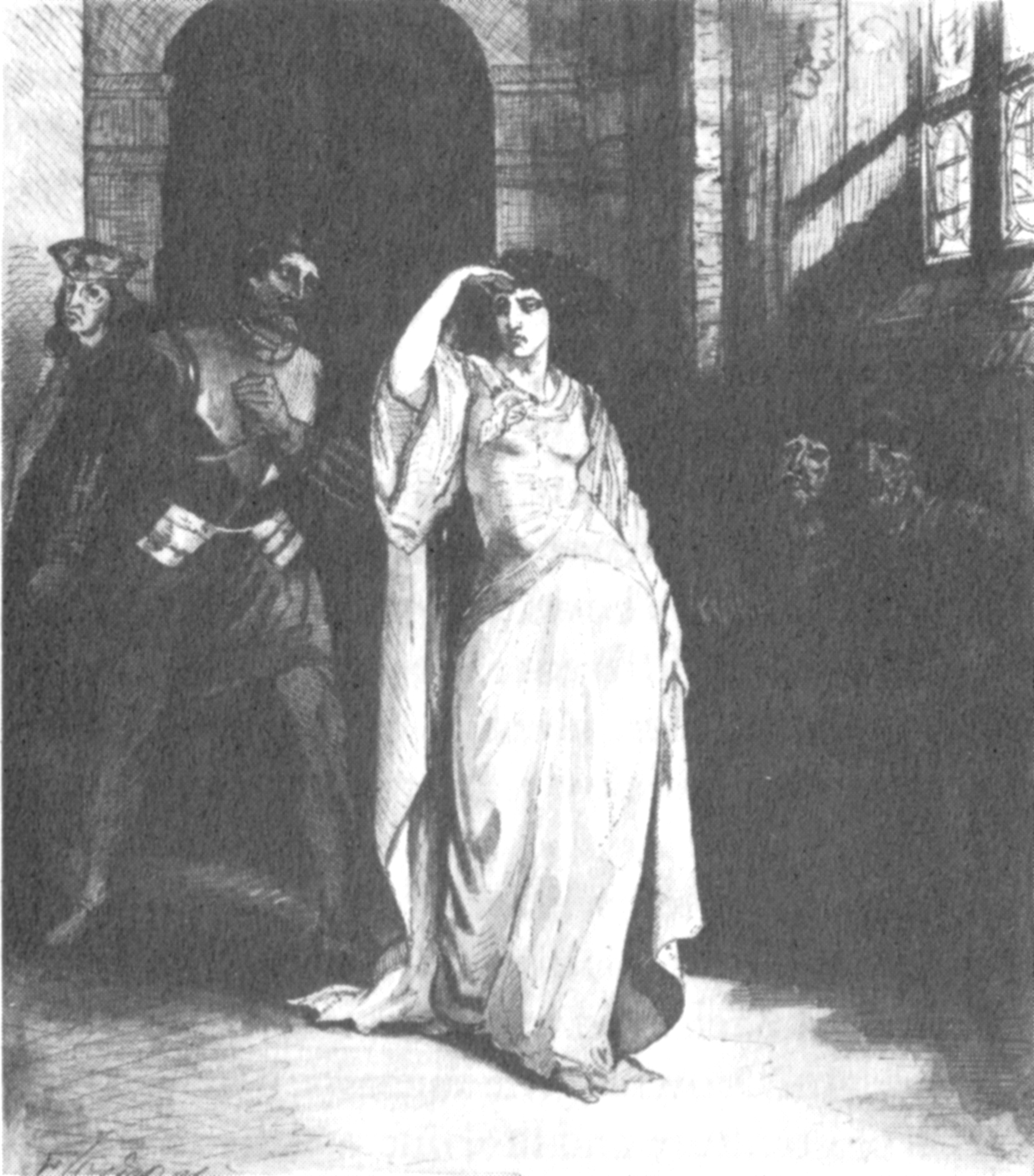 English actress Sarah Siddons as Ophelia in Shakespeare's Hamlet